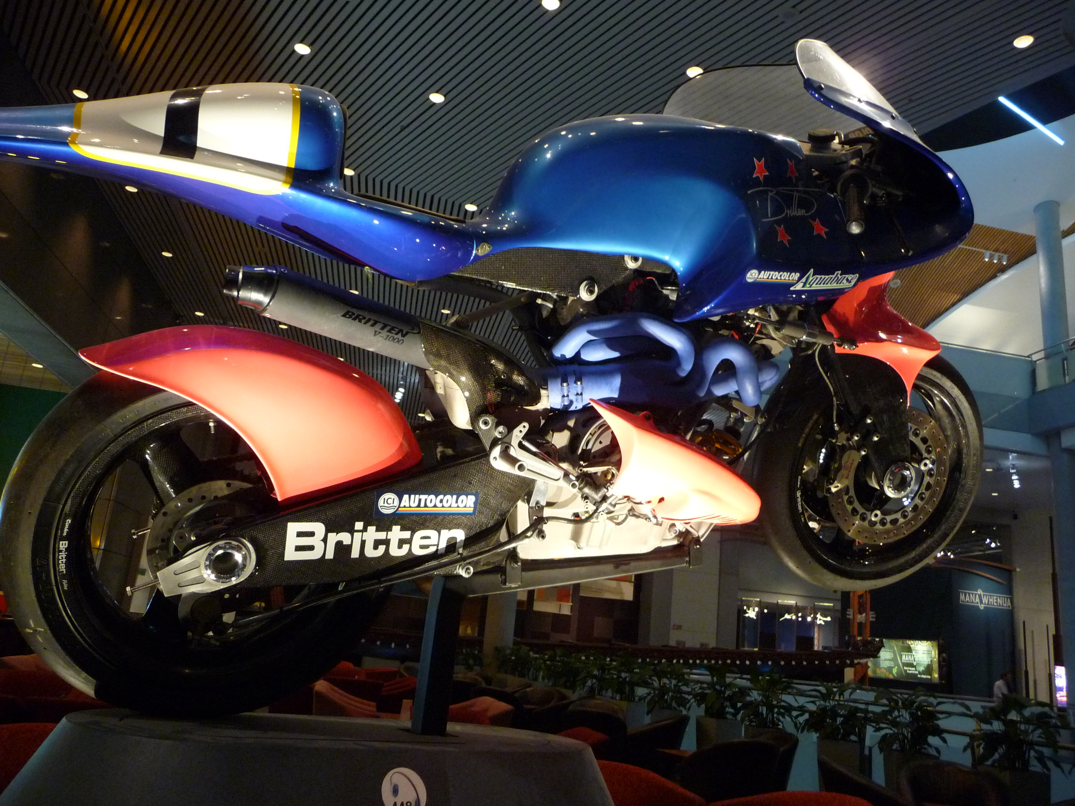 The Britten V1000 at Wellington Te Papa Museum